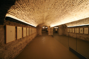 bodega